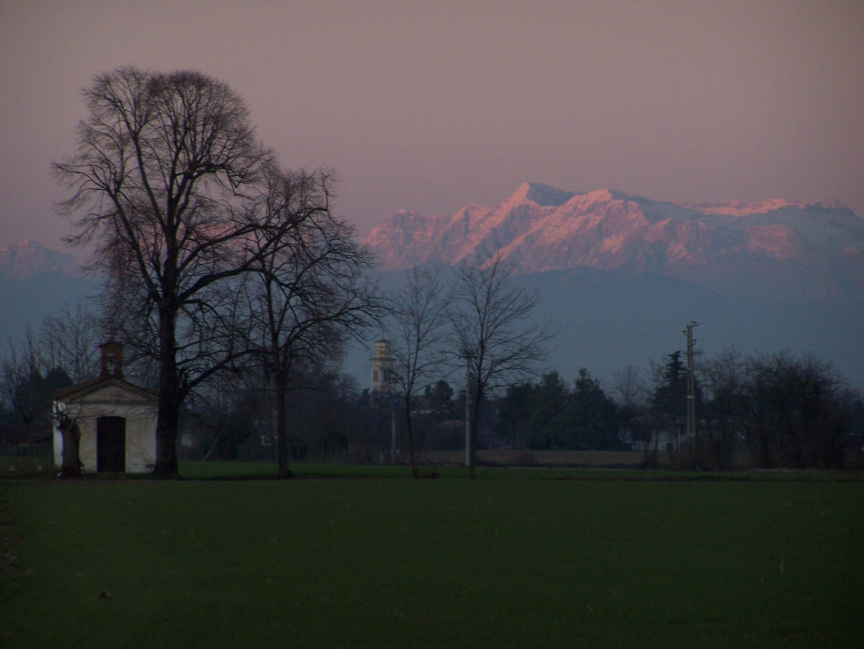 The little church of Madone di Colorêt, near Aiello del Friuli/Dael, Udine, Friuli, Italy